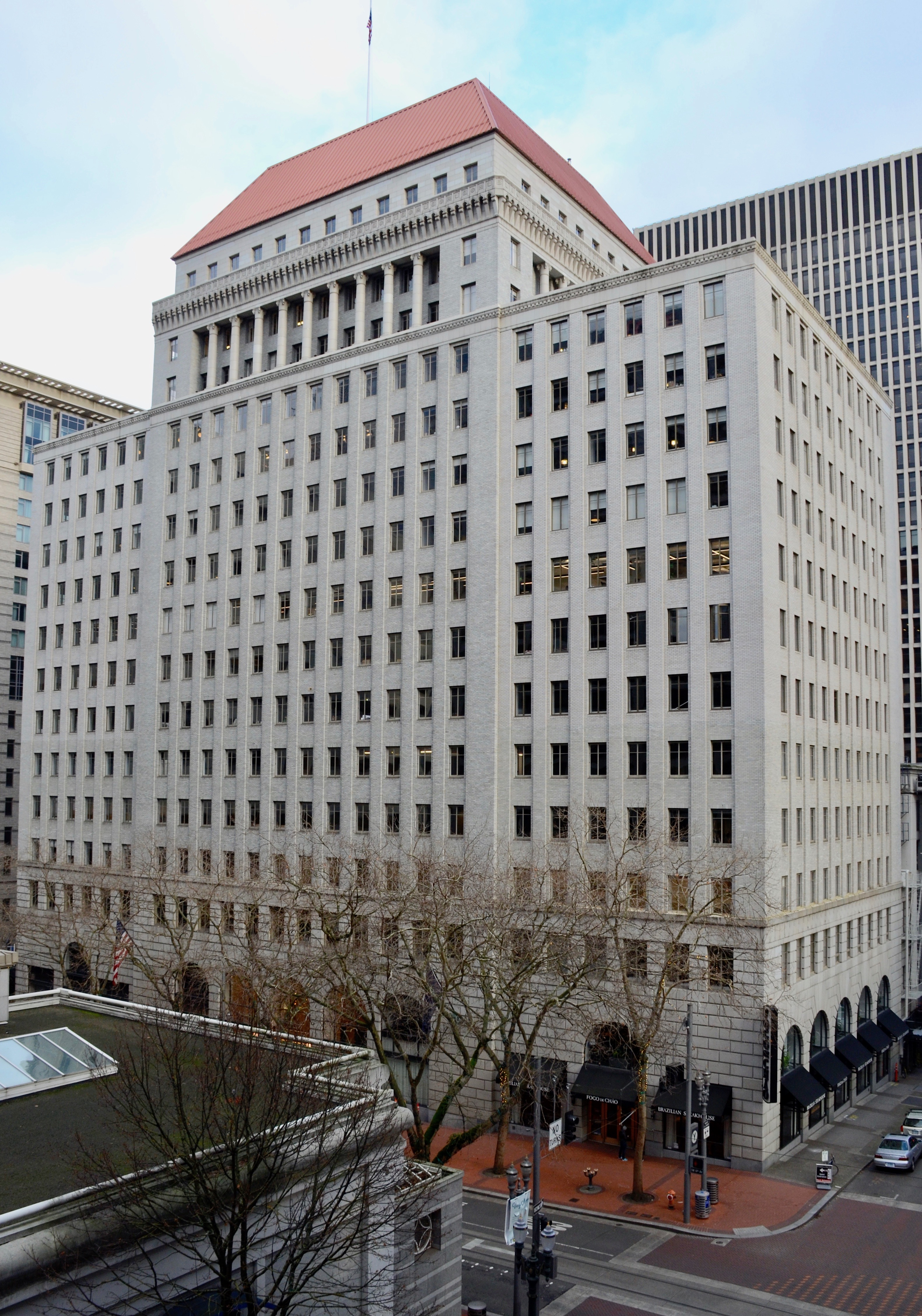 The west (front) and south sides of the historic Public Service Building, in downtown Portland, Oregon, from the Salmon Street side of a nearby parking garage, at approximately the 6th floor. The 1927 building is listed on the U.S. National Register of Historic Places.